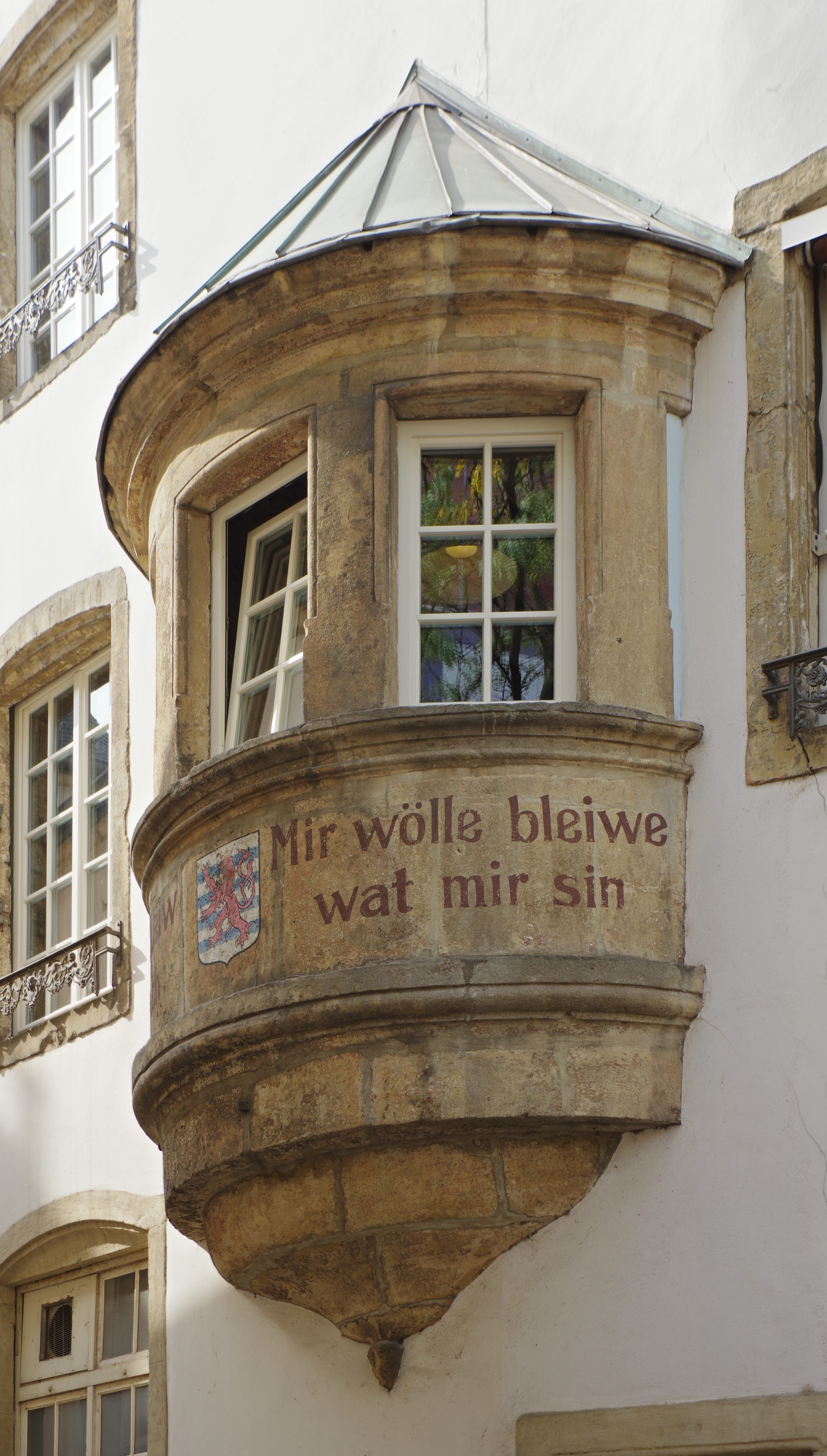 Luxembourg city, inscription at a building at the rue de la Loge next to the fish market: " we want to remain what we are"